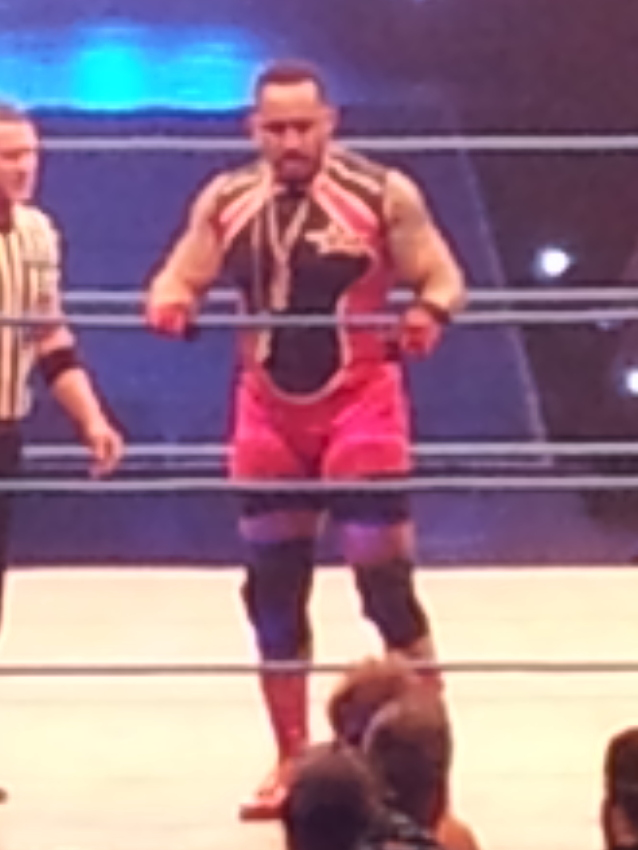 TNA Maximum Impact VI Tour – 31st January 2014 – Phones 4 U Arena, Manchester